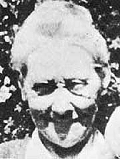 Helen Bannerman (1862 – 1946) Scots author